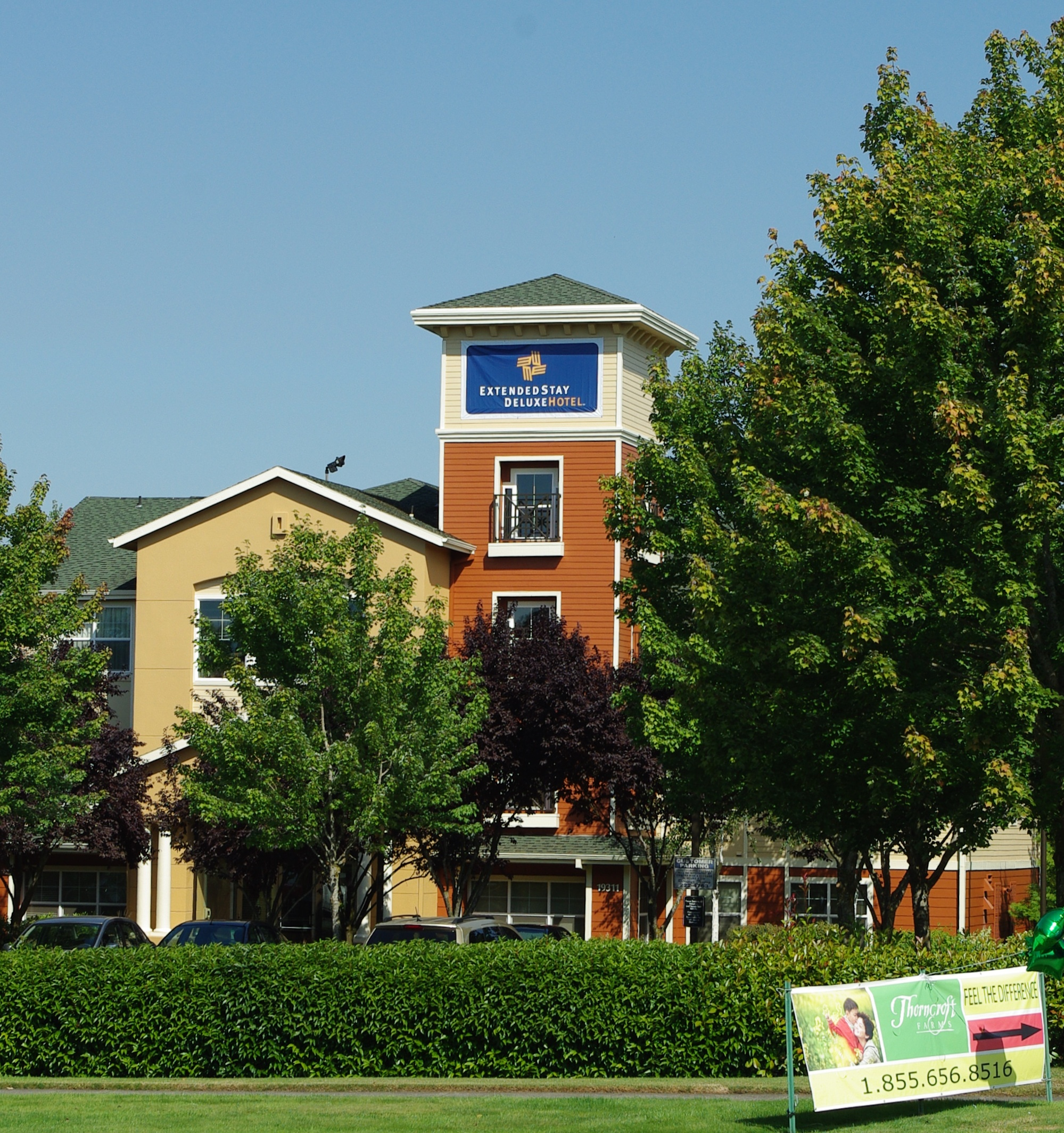 Extended Stay Deluxe Hotel on Cornell in the Tanasbourne area of Hillsboro, Oregon.